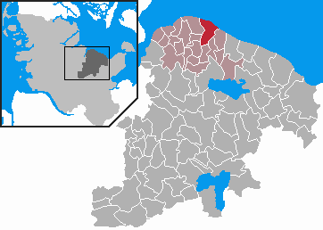 This map shows the area of the Gemeinde (municipality) Schönberg in the Kreis (district) Plön, Schleswig-Holstein, Germany.